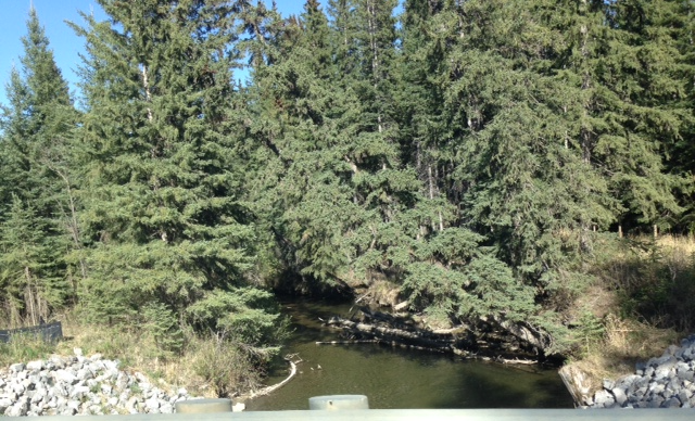 Picture of the Raven River taken from atop a bridge before it meets up with the North Raven River.